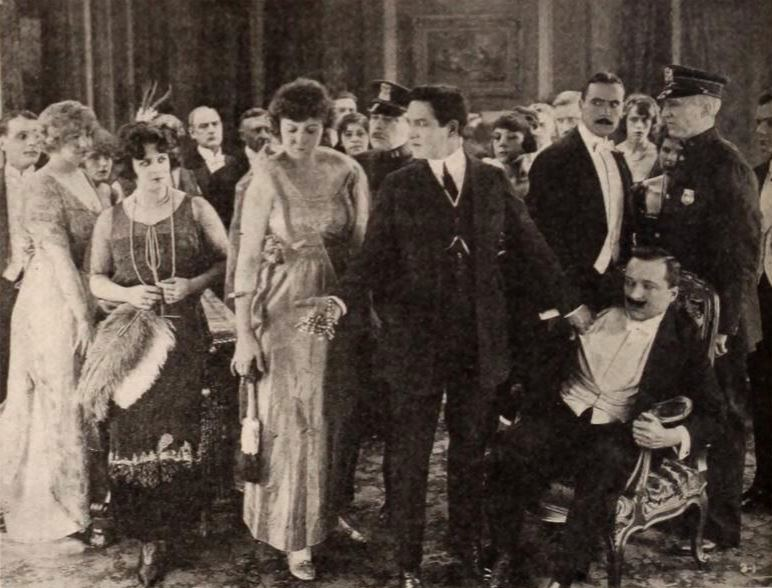 Still from the American film serial The Whirlwind (1920) with Charles Hutchison, the other actors and actresses are not identified, on page 84 of the April 24, 1920 Exhibitors Herald.